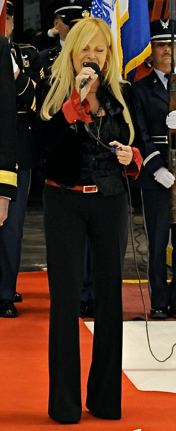 Karen Newman sings the national anthem before a Detroit Red Wings game at Joe Louis Arena on November 11, 2010